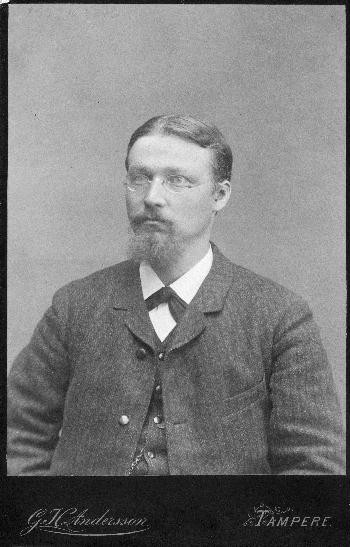 Photograph of the Finnish writer and politician Eino Sakari Yrjö-Koskinen (1858–1916).